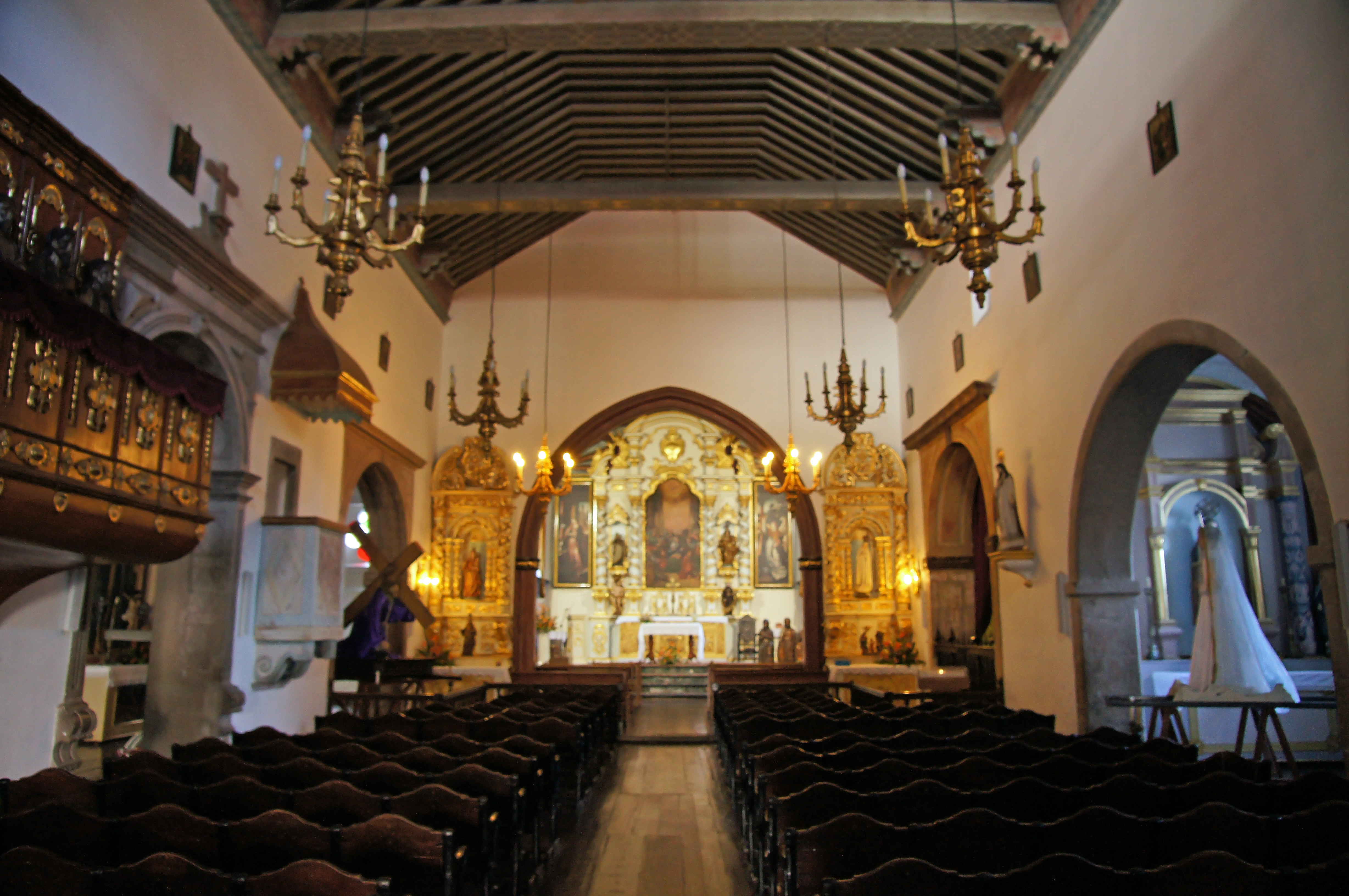 Interior of Church of Espírito Santo, Calheta